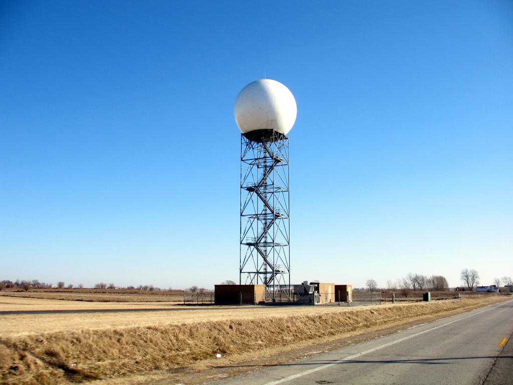 Located in Lincoln. I was passing by and just had to snap it. Also known as WSR-88D (Weather Surveillance Radar 1988 Doppler), and NEXRAD (Next Generation Weather Radar)